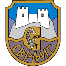 Coat of Arms of the city and municipality of Svrljig, Serbia